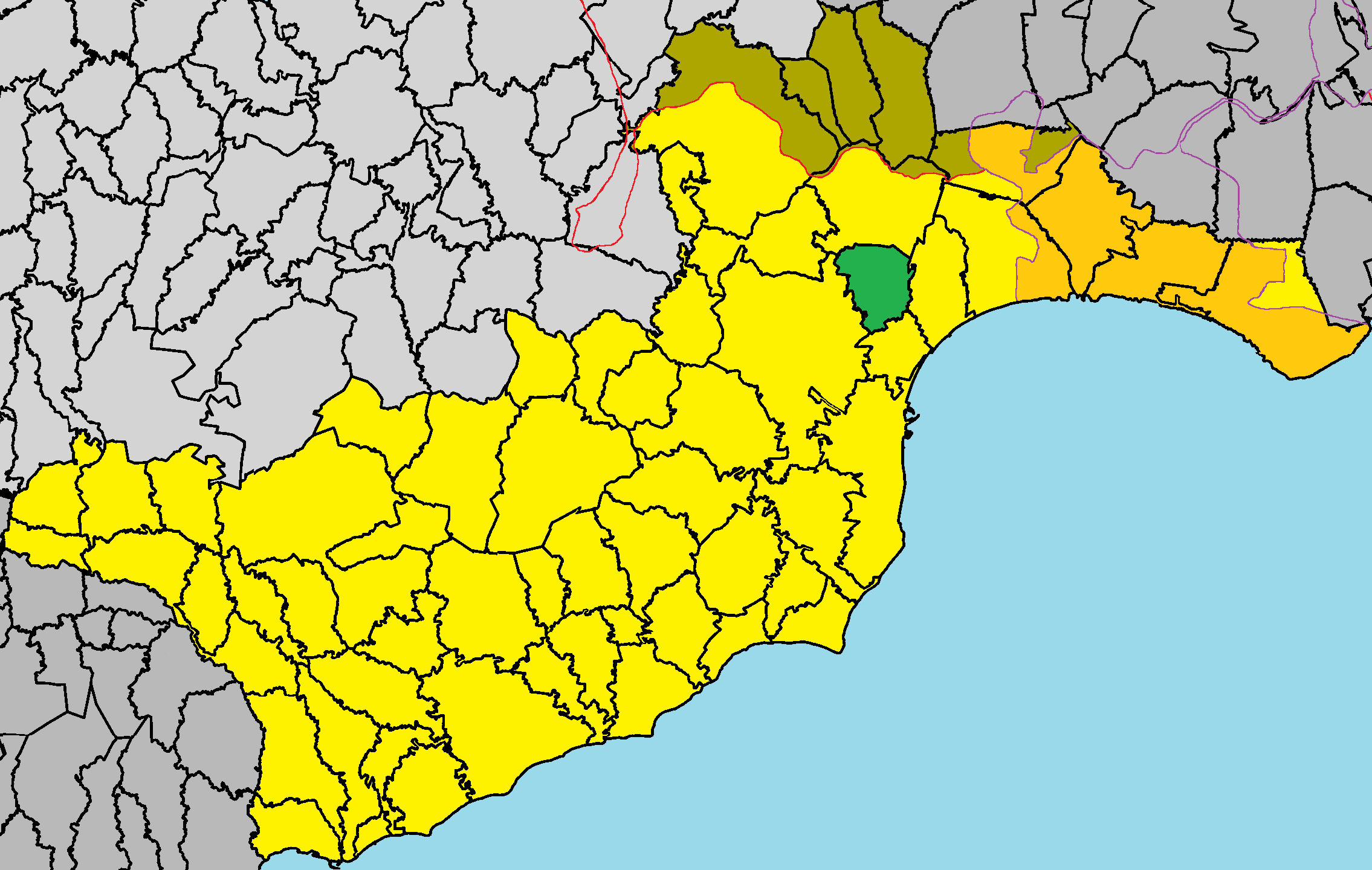 Kellia in Larnaca District.